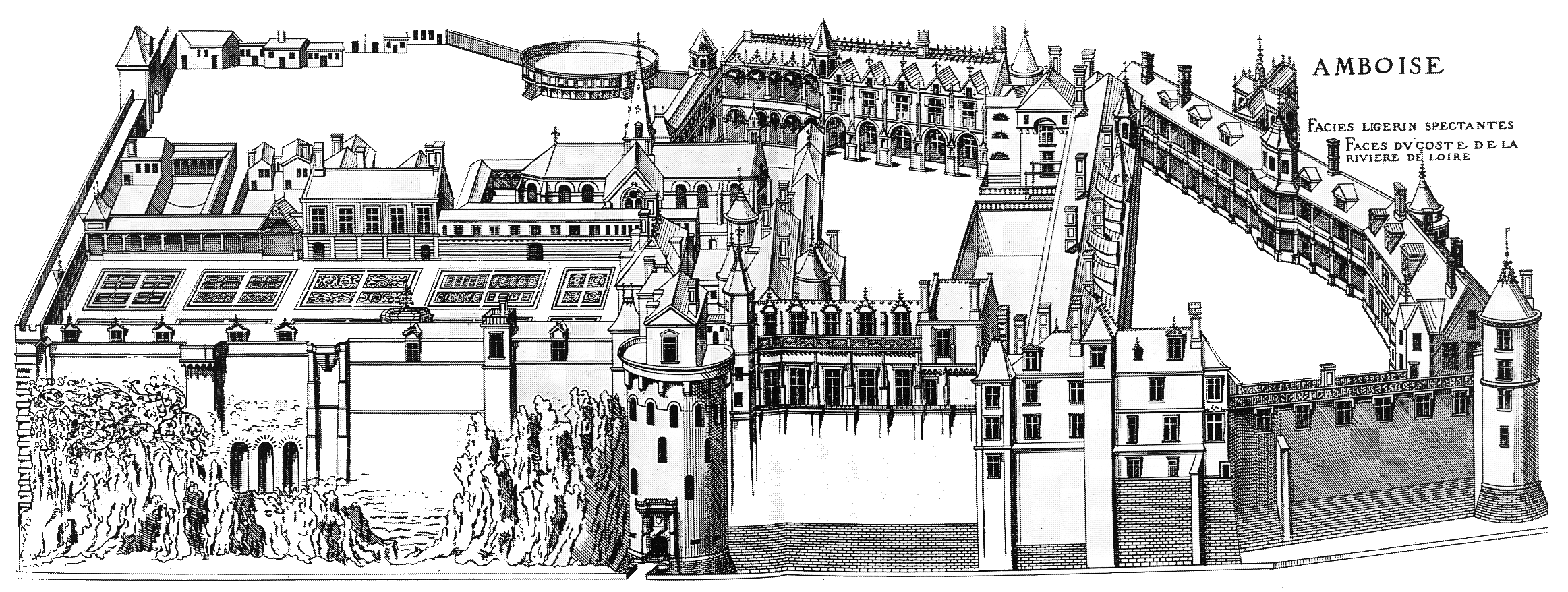 Château d'Amboise, bird's eye view